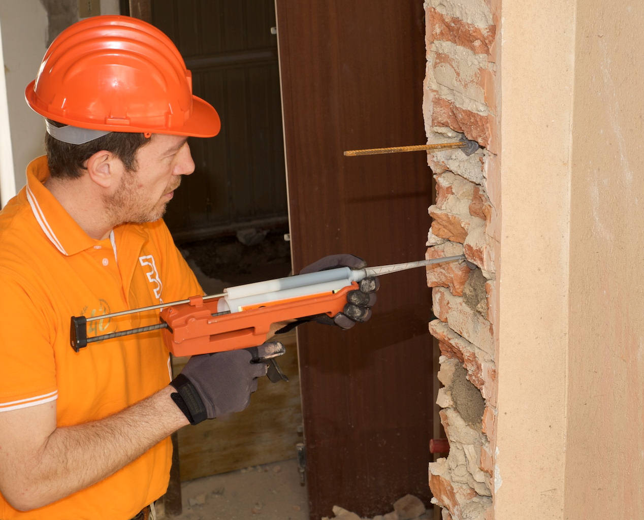 Aplicación de un anclaje químico para renfuerzo